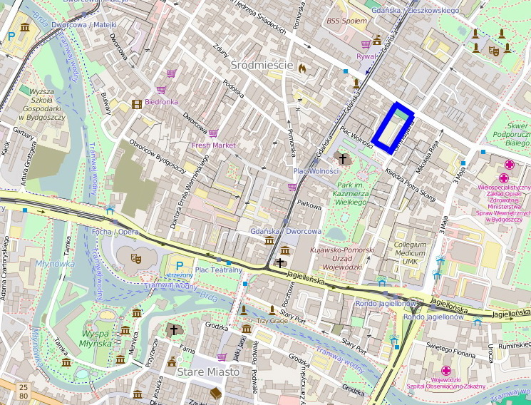 Location on a map